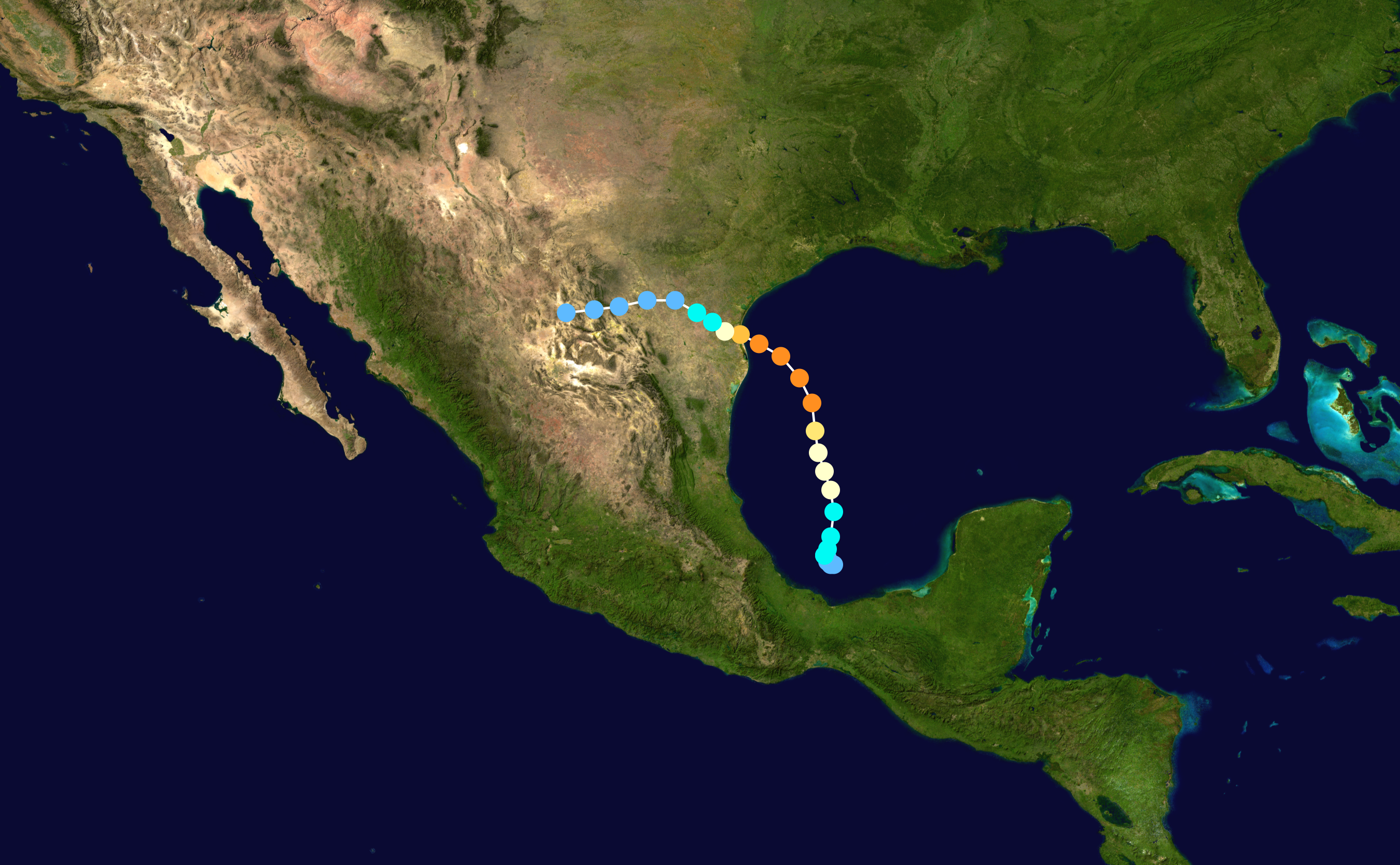 Track map of Hurricane Bret of the 1999 Atlantic hurricane season. The points show the location of the storm at 6-hour intervals. The colour represents the storm's maximum sustained wind speeds as classified in the Saffir–Simpson scale (see below), and the shape of the data points represent the nature of the storm, according to the legend below. Saffir–Simpson scale Tropical depression≤38 mph≤62 km/h Category 3111–129 mph178–208 km/h Tropical storm39–73 mph63–118 km/h Category 4130–156 mph209–251 km/h Category 174–95 mph119–153 km/h Category 5≥157 mph≥252 km/h Category 296–110 mph154–177 km/h Unknown Storm type Tropical cyclone Subtropical cyclone Extratropical cyclone / Remnant low / Tropical disturbance / Monsoon depression